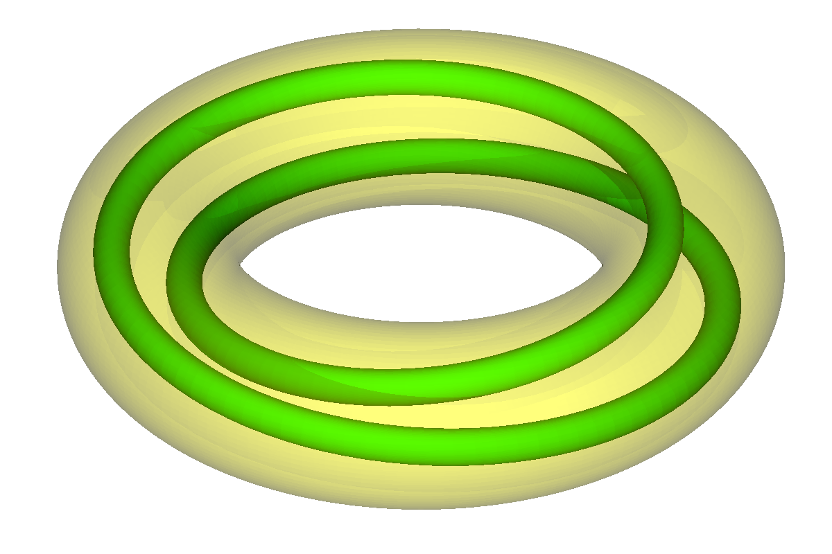 Smale — Williams solenoid map (original solid torus and its first image)